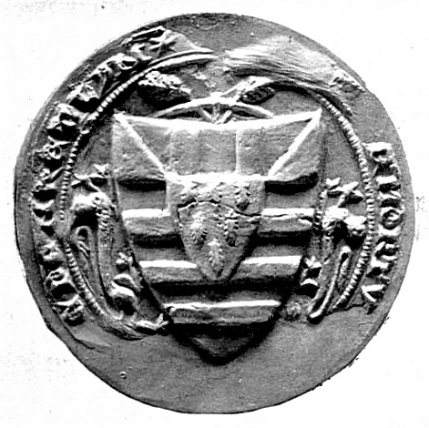 Seal of Roger Mortimer de Chirk